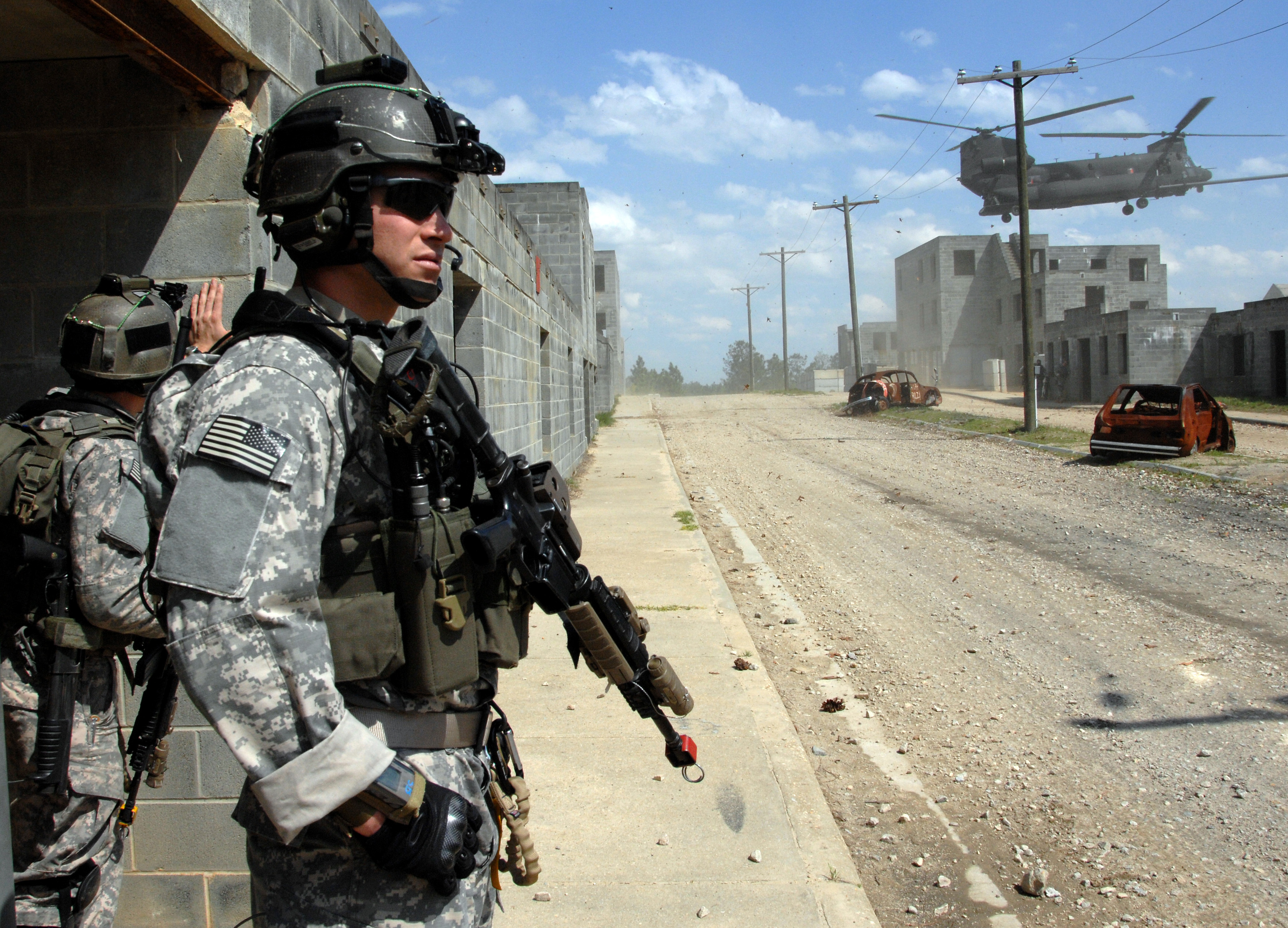 Army Rangers from the 1s Battalion, 75th Ranger Regiment patrol the streets of mock city before evacuating in a MH-47 Chinook during a capabilities training exercise conducted at Fort Bragg, North Carolina, on April 21, 2009.